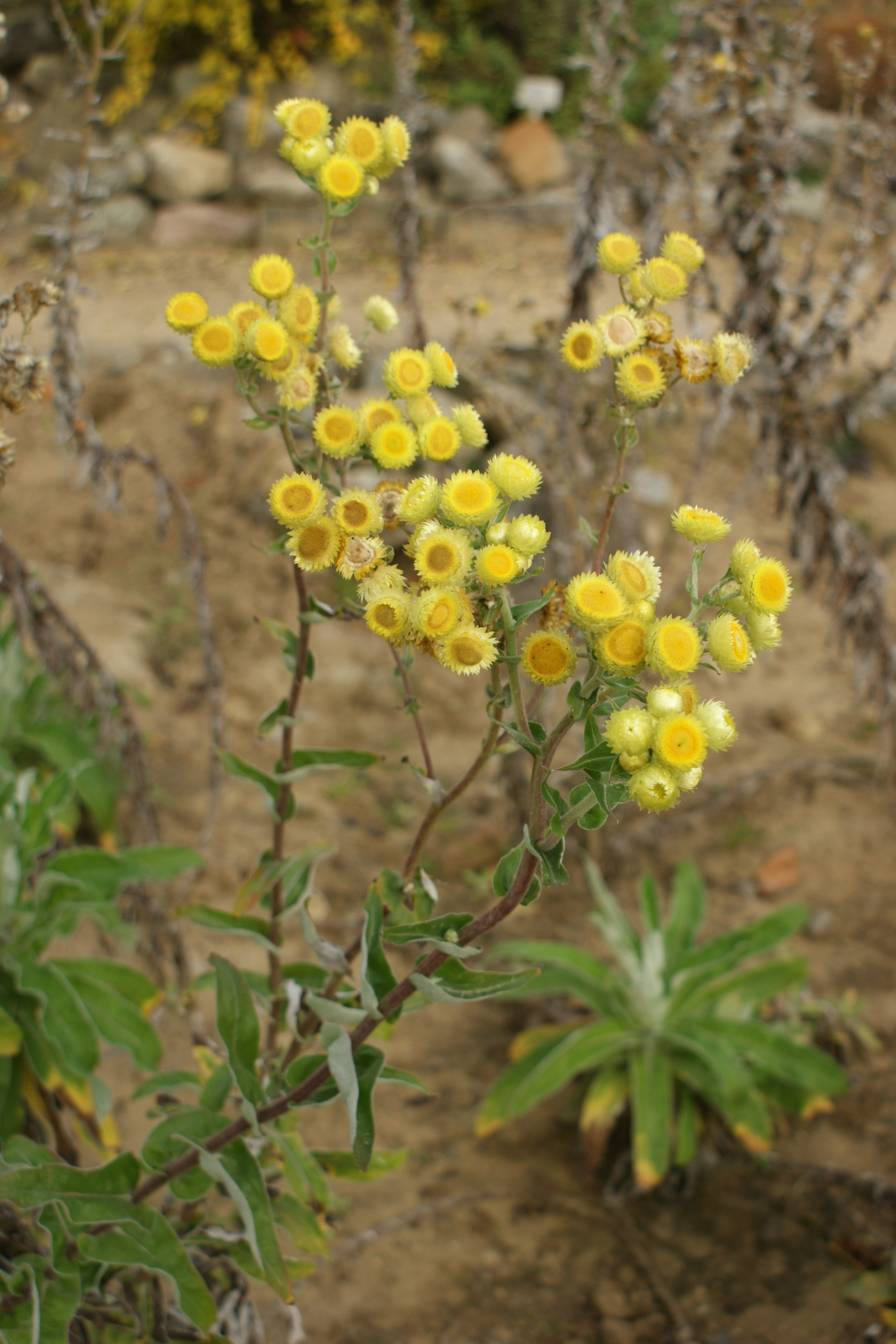 Helichrysum foetidum